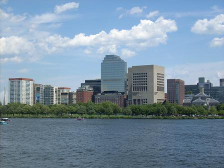 The West End Neighborhood of Boston as seen from the Longfellow Bridge in July 2007. Picture taken by SBacle. To be used in the West End, Boston, Massachusetts article.